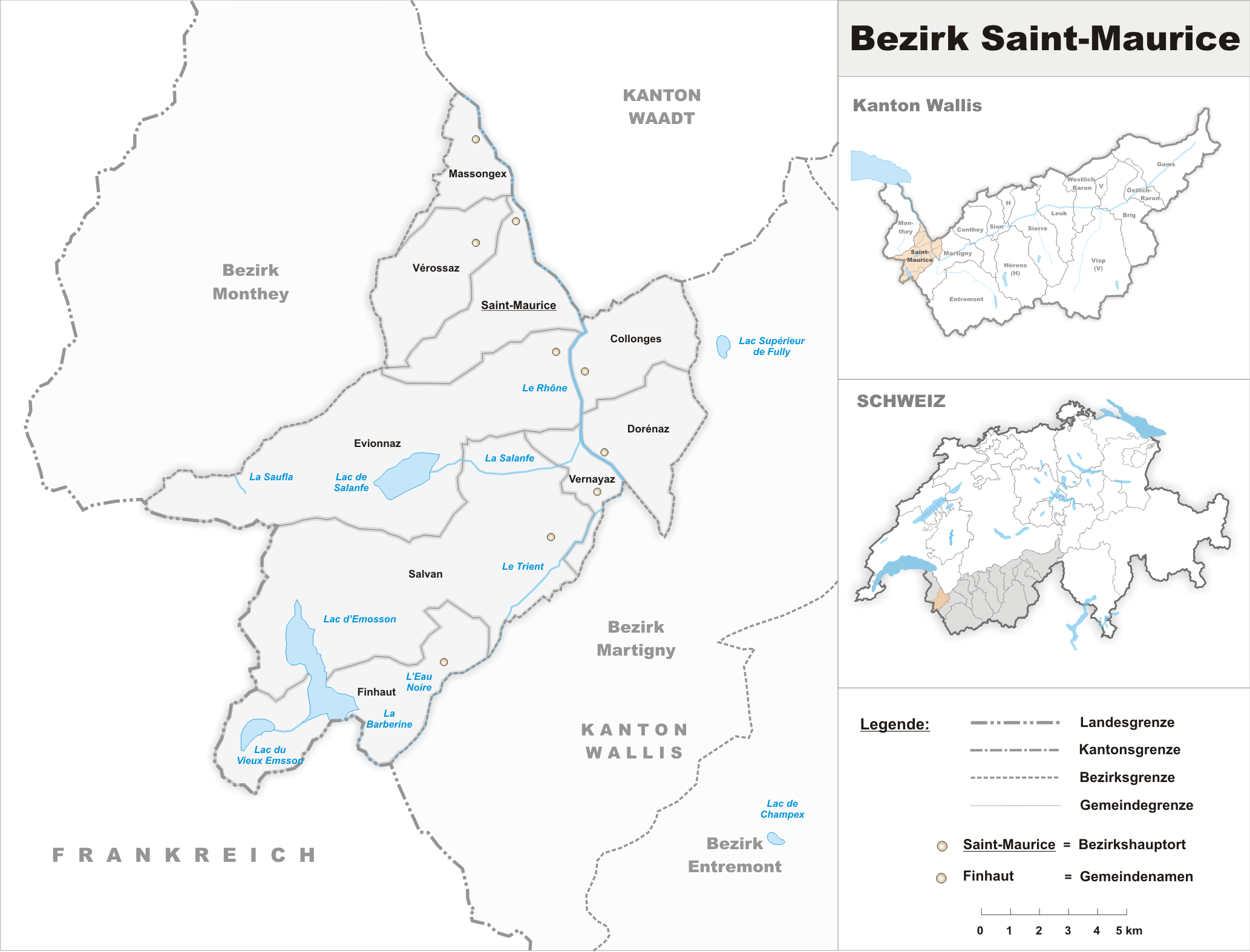 Municipalities in the district of Saint-Maurice